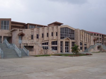 New Academic Complex iit guwahati